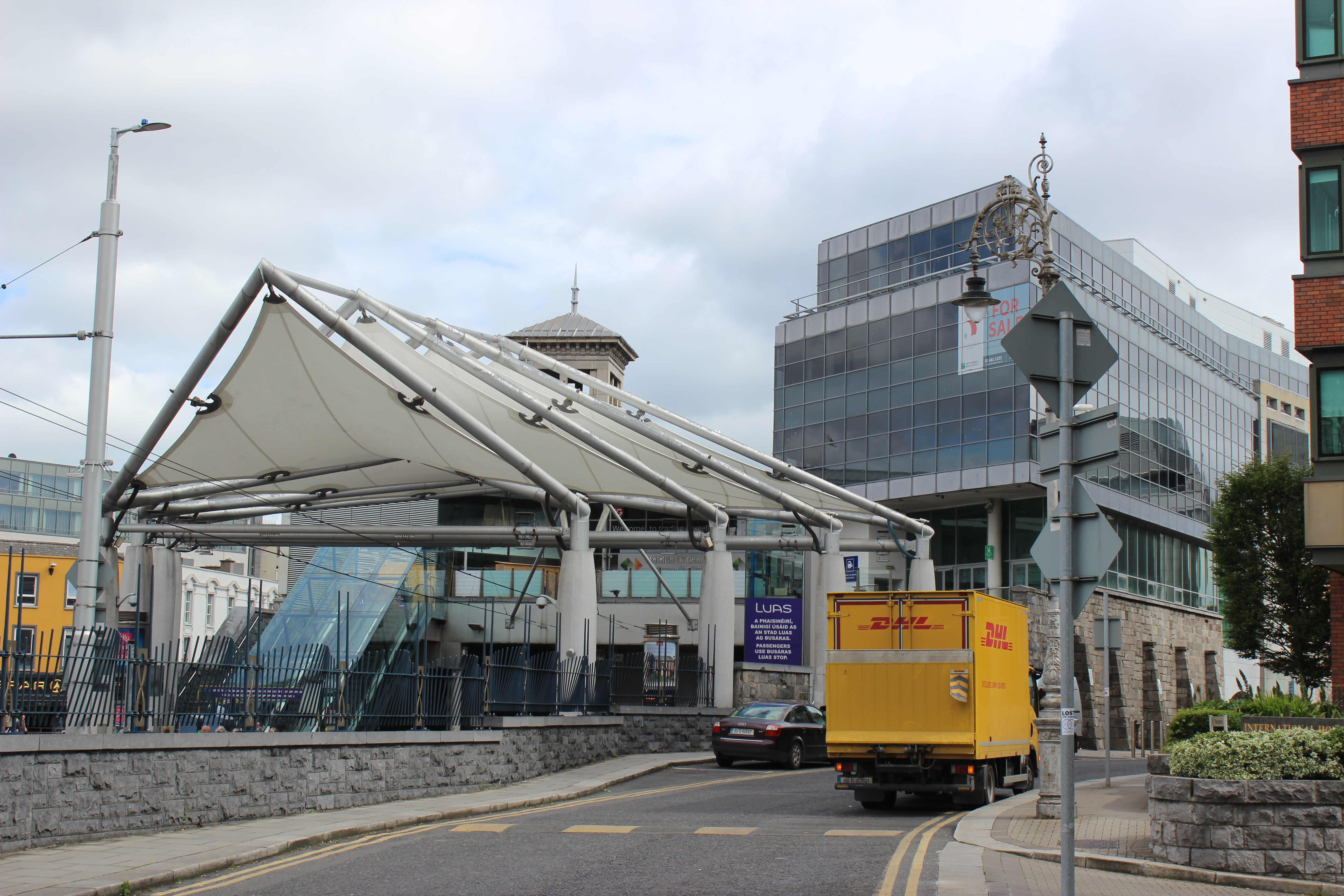 Dublin Connolly railway station in 2019